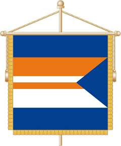 Standard mayor of Novoukrainka